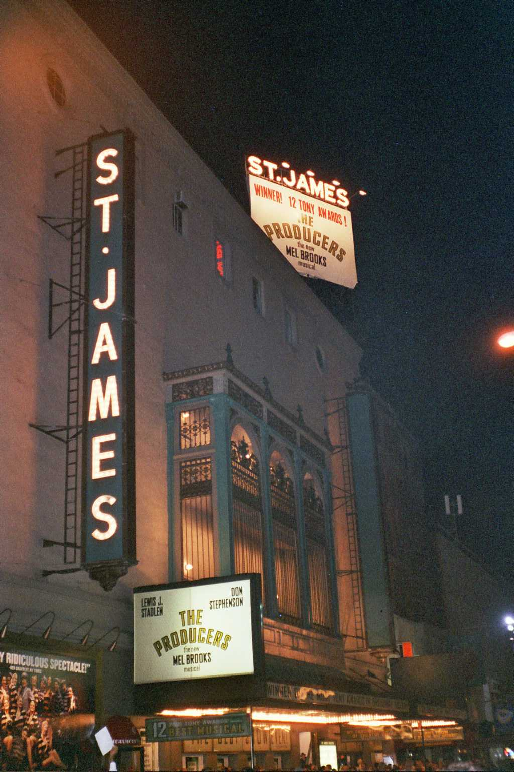 The St James Theatre in Broadway, with "The Producers"